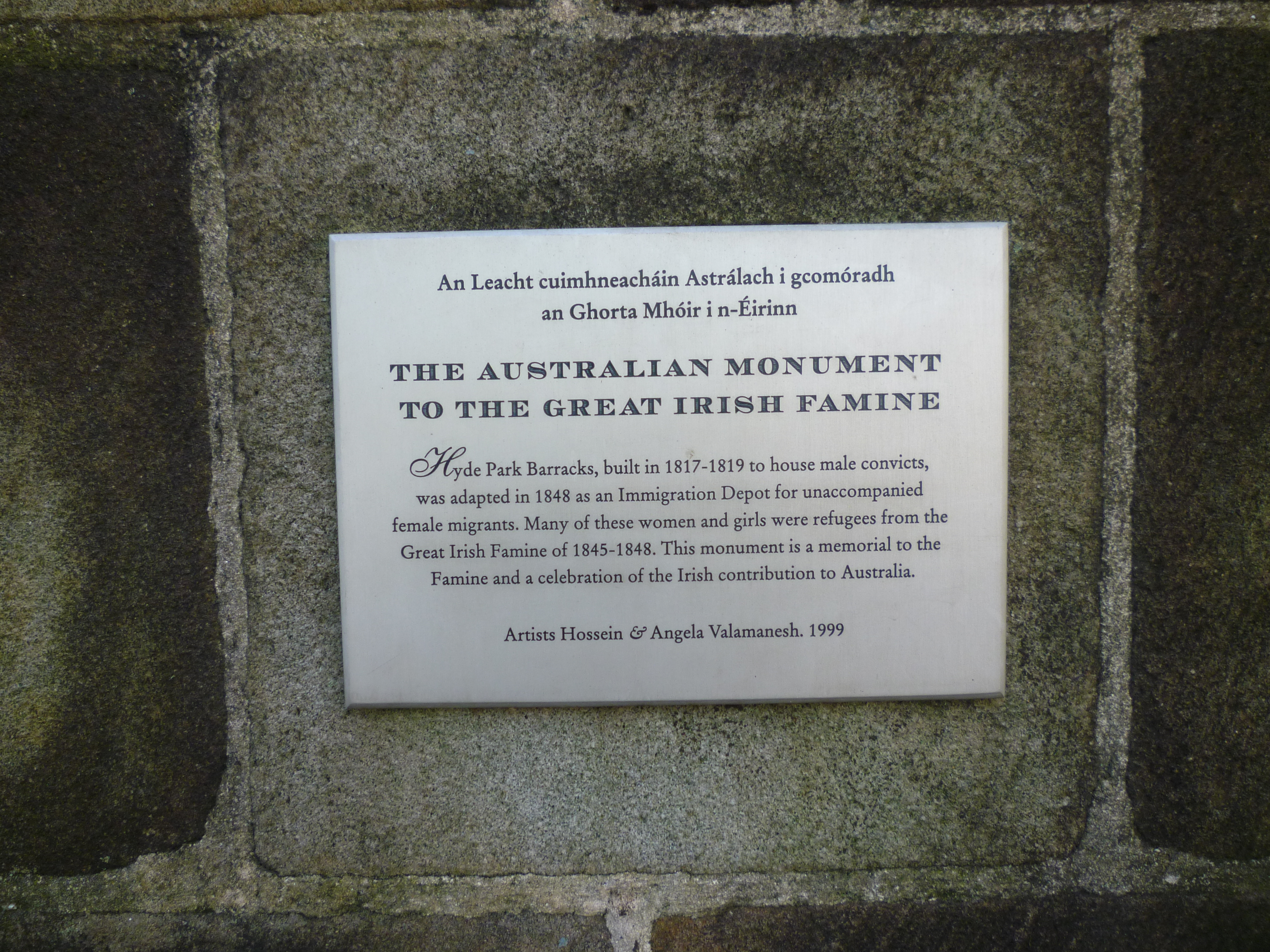 Detail of the Australian Monument to The Great Irish Famine at Hyde Park Barracks, Sydney